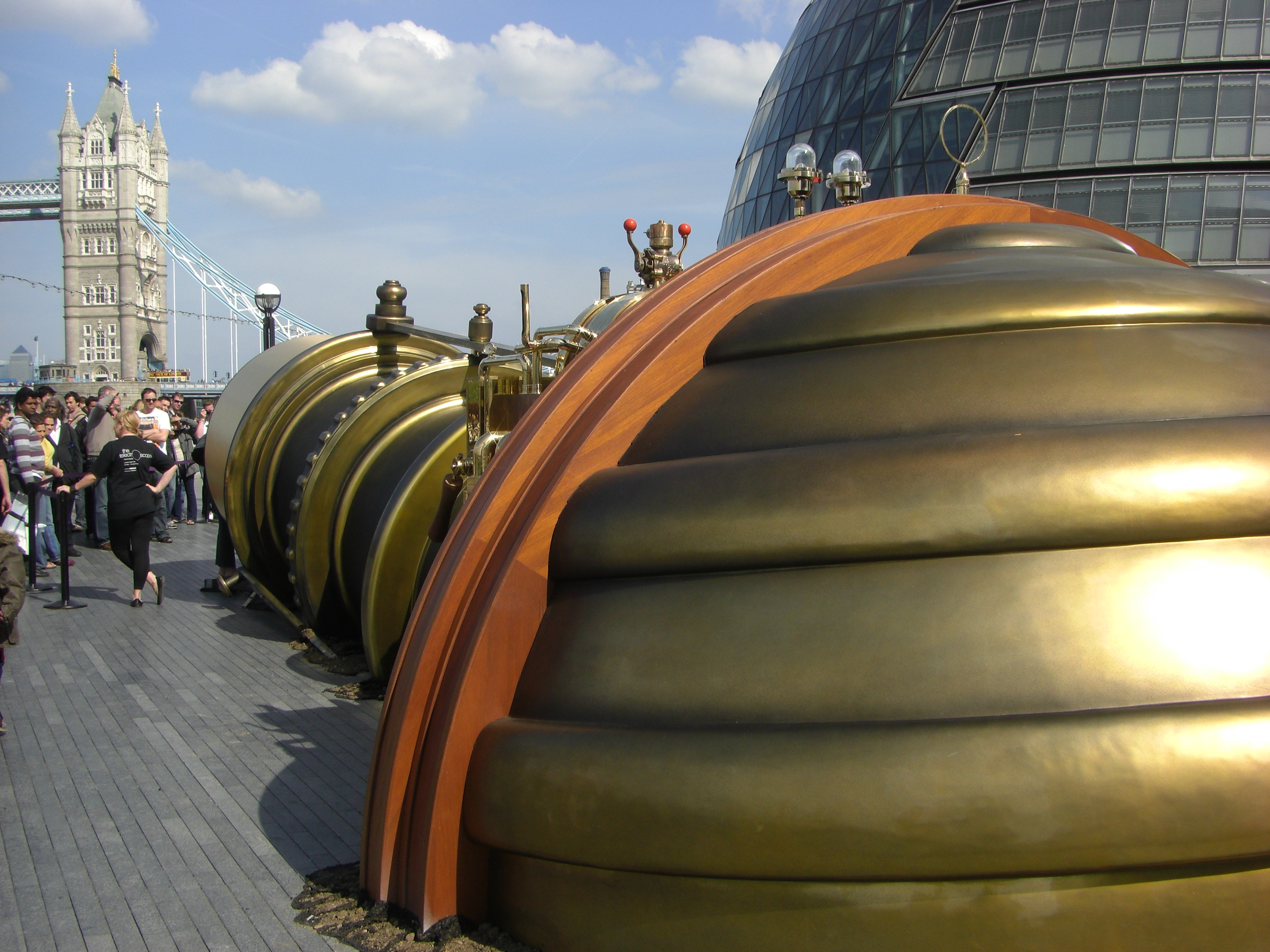 Picture of the Telectroscope art installation aperture at City Hall in London, taken by the uploader. The device points at Canary Wharf through Tower Bridge.